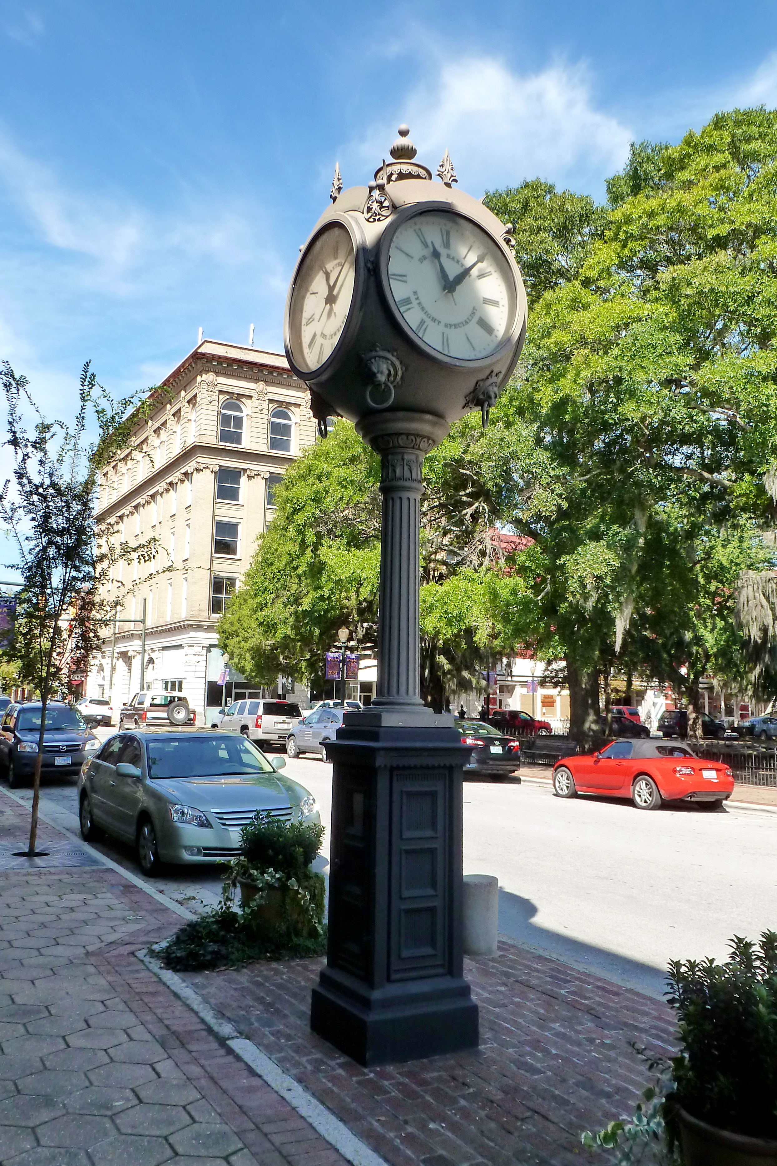 Baxter Clock. A rare 1920 Seth Thomas post clock located in front of Baxter's Jewelers in New Bern, North Carolina, USA